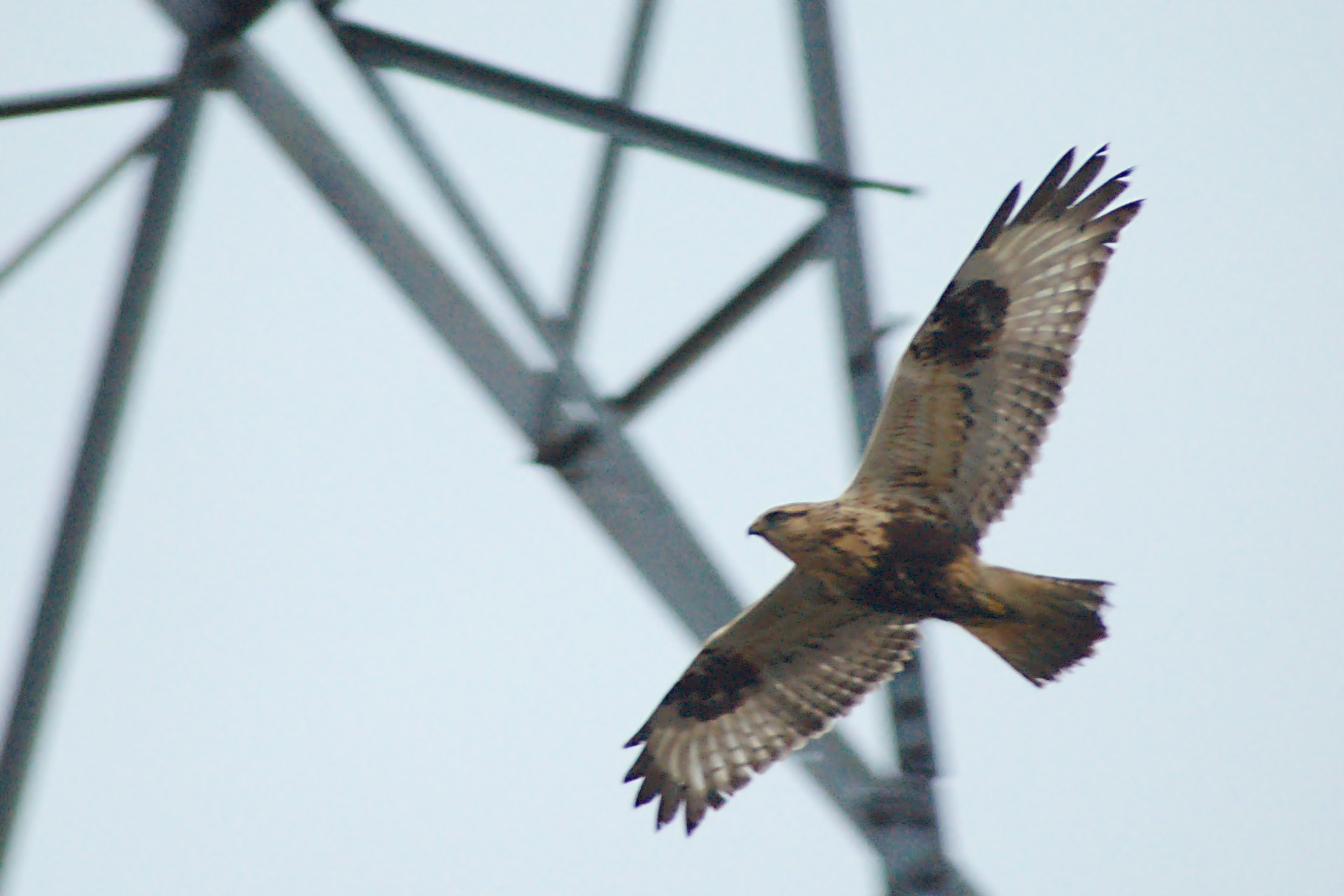 Around here, we get many red-tailed hawks and bald eagles, but this was the first rough-legged hawk that i've seen. For those in the area, this was almost at the very end of 64th, near Boundary Bay in Ladner. It's not that far of a bike ride from the Ladner bus exchange...just on the other side of the highway, and then south a bunch.